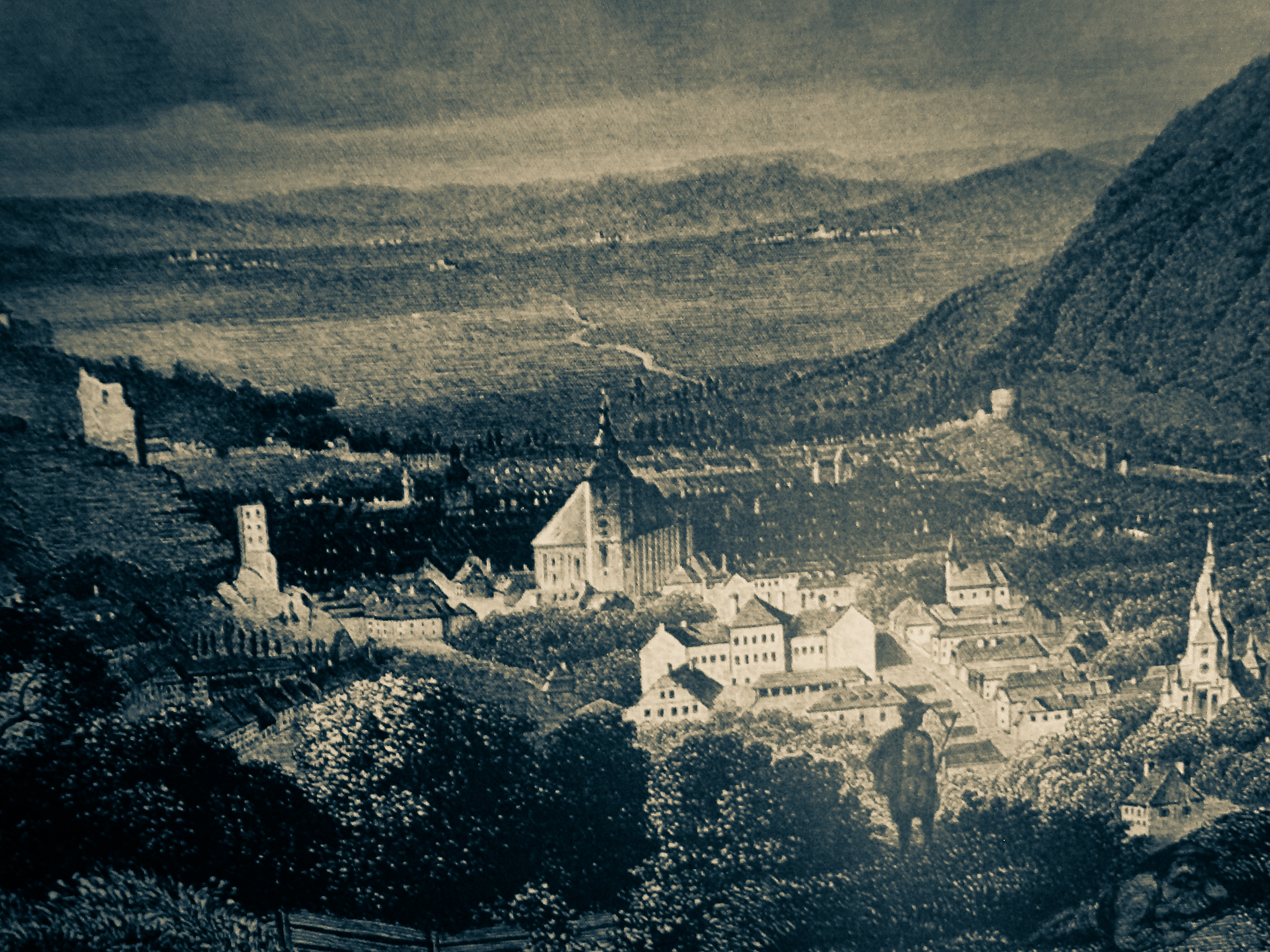 Brasov by Ludwig Rohbock